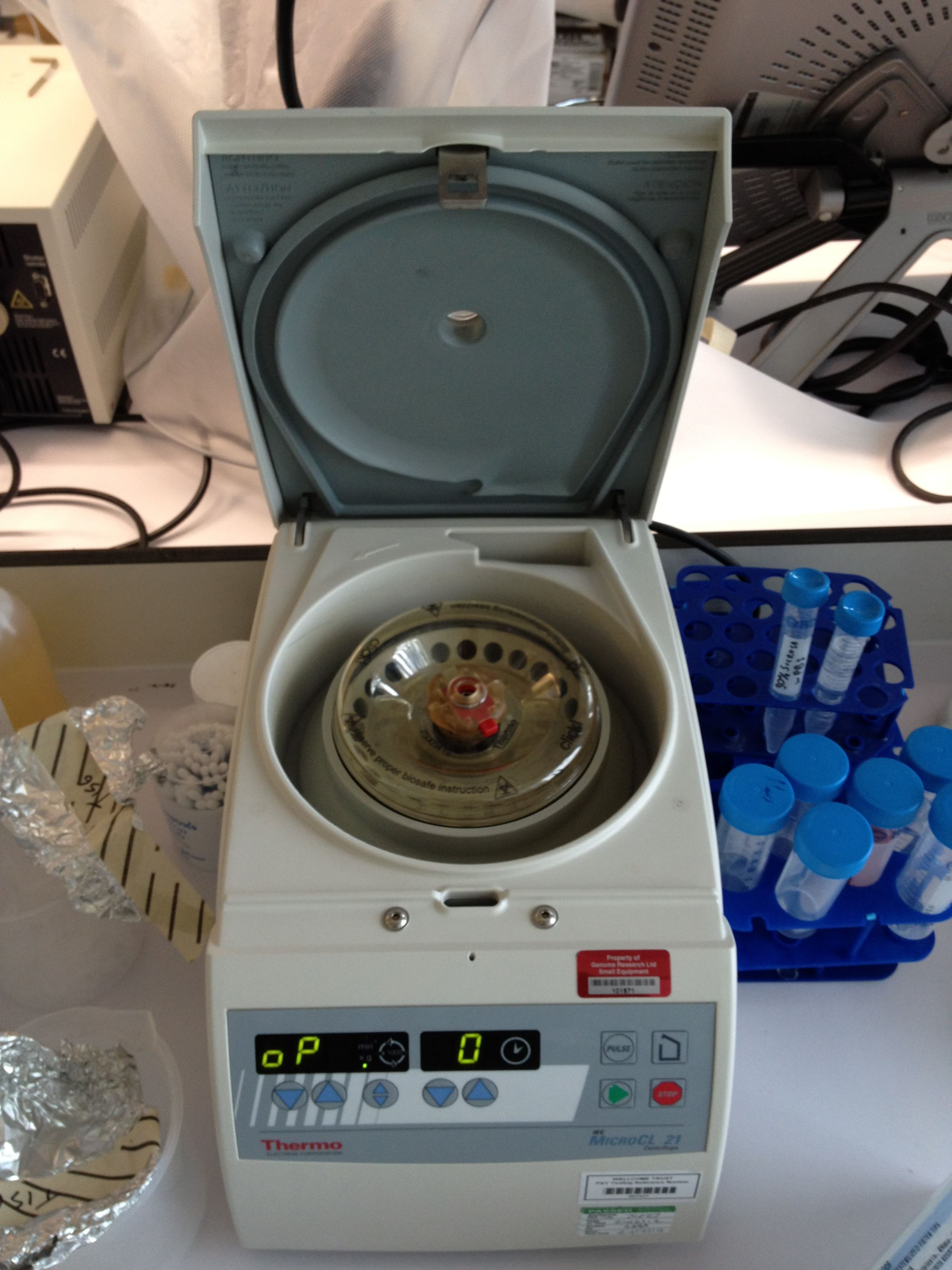 A Micro CL 21 laboratory centrifuge manufactured by ThermoFisher, taken at the Wellcome Trust Sanger Institute